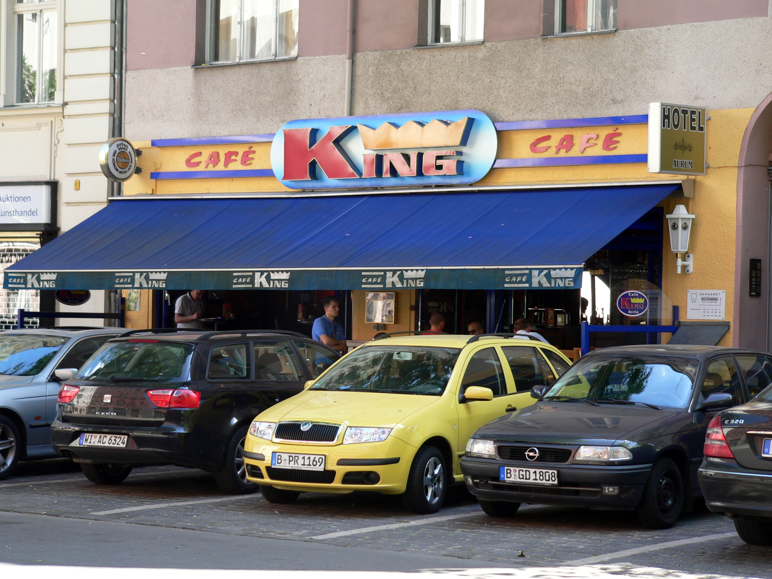 Berlin-Charlottenburg Café King at Rankestraße